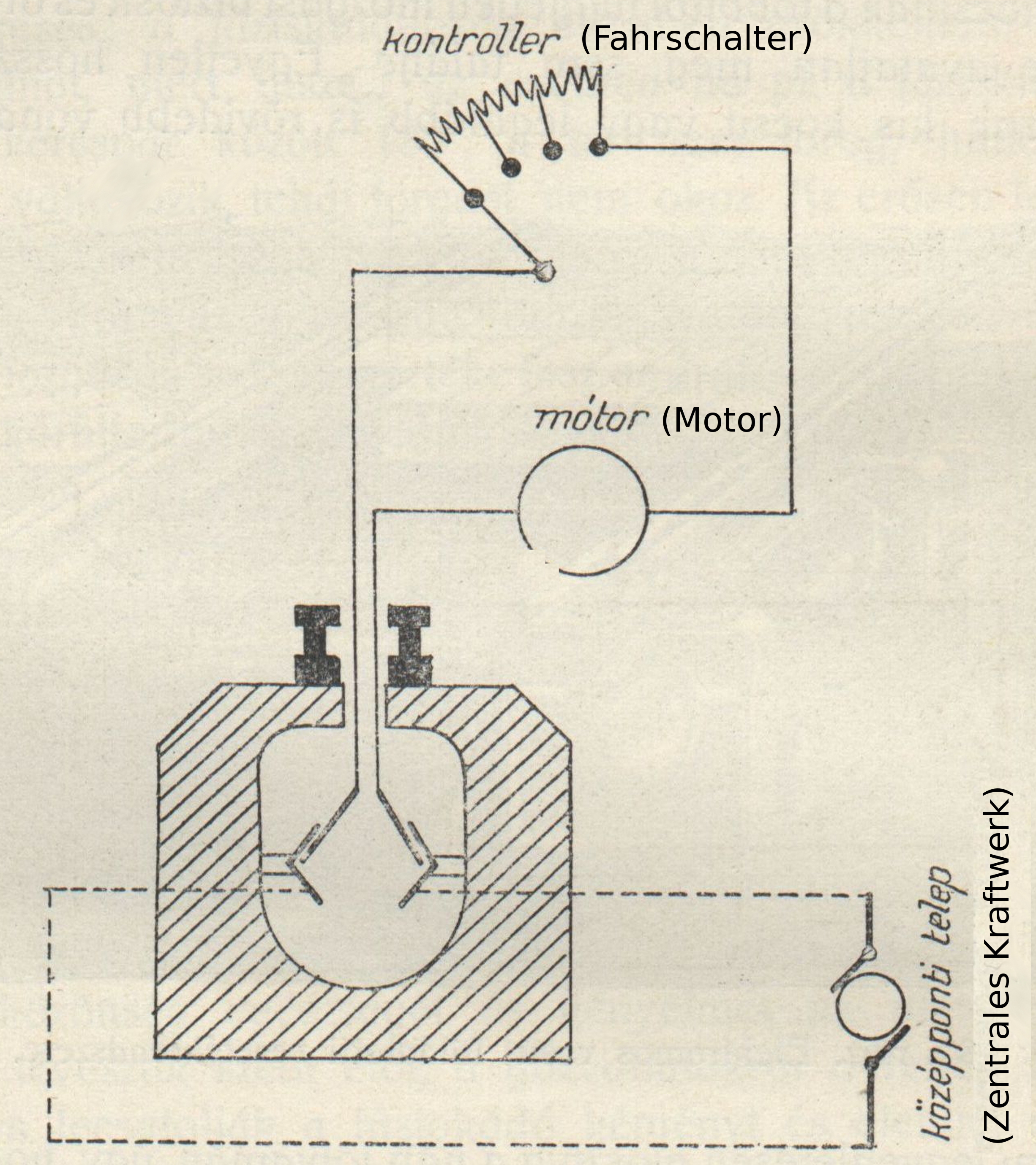 Schematic diagram of a twin rail with a third rail electric power supply in a separate third rail channel under it used for the city light rail in Budapest, in service from 1887 in a pilot operation and from 1889 until mid of the 1920s in the town centre of Budapest